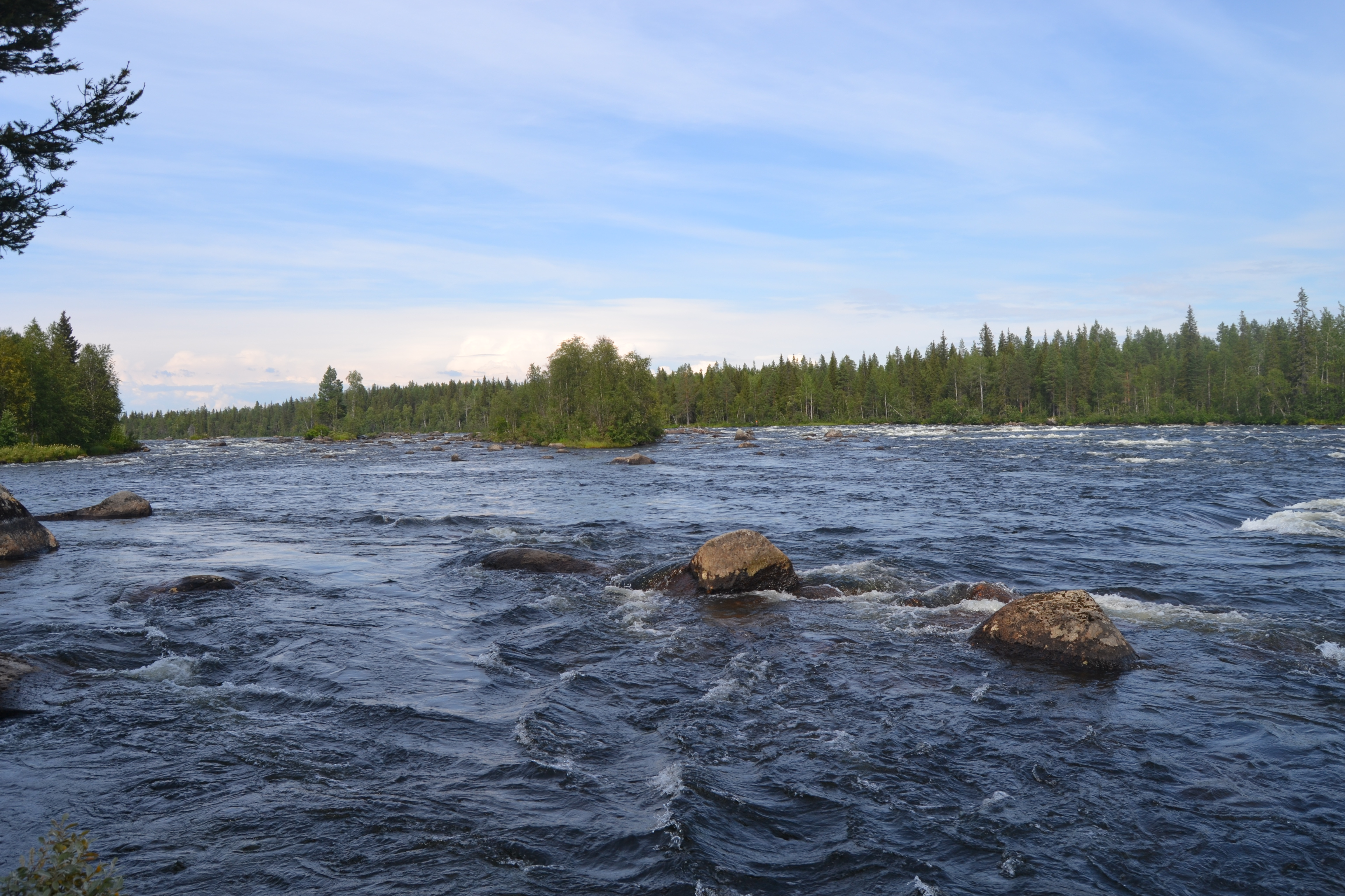 Torneforsen rapids in Pajala, Sweden